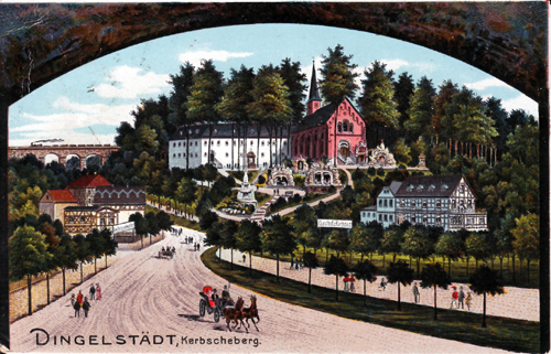 Kerbscher Berg by Dingelstädt